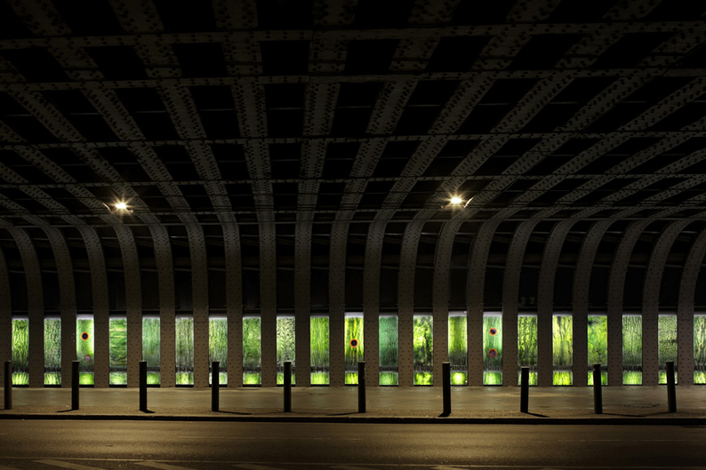 Light art by Roland Stratmann in S-Bahn tunnel Neuköllner Tor, Berlin